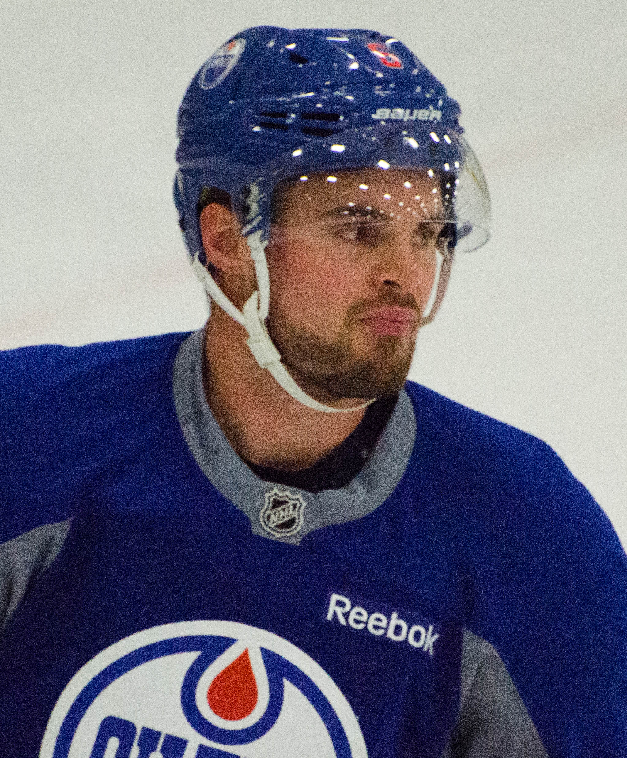 Jesse Joensuu at an Edmonton Oilers practice, Sept. 27, 2014